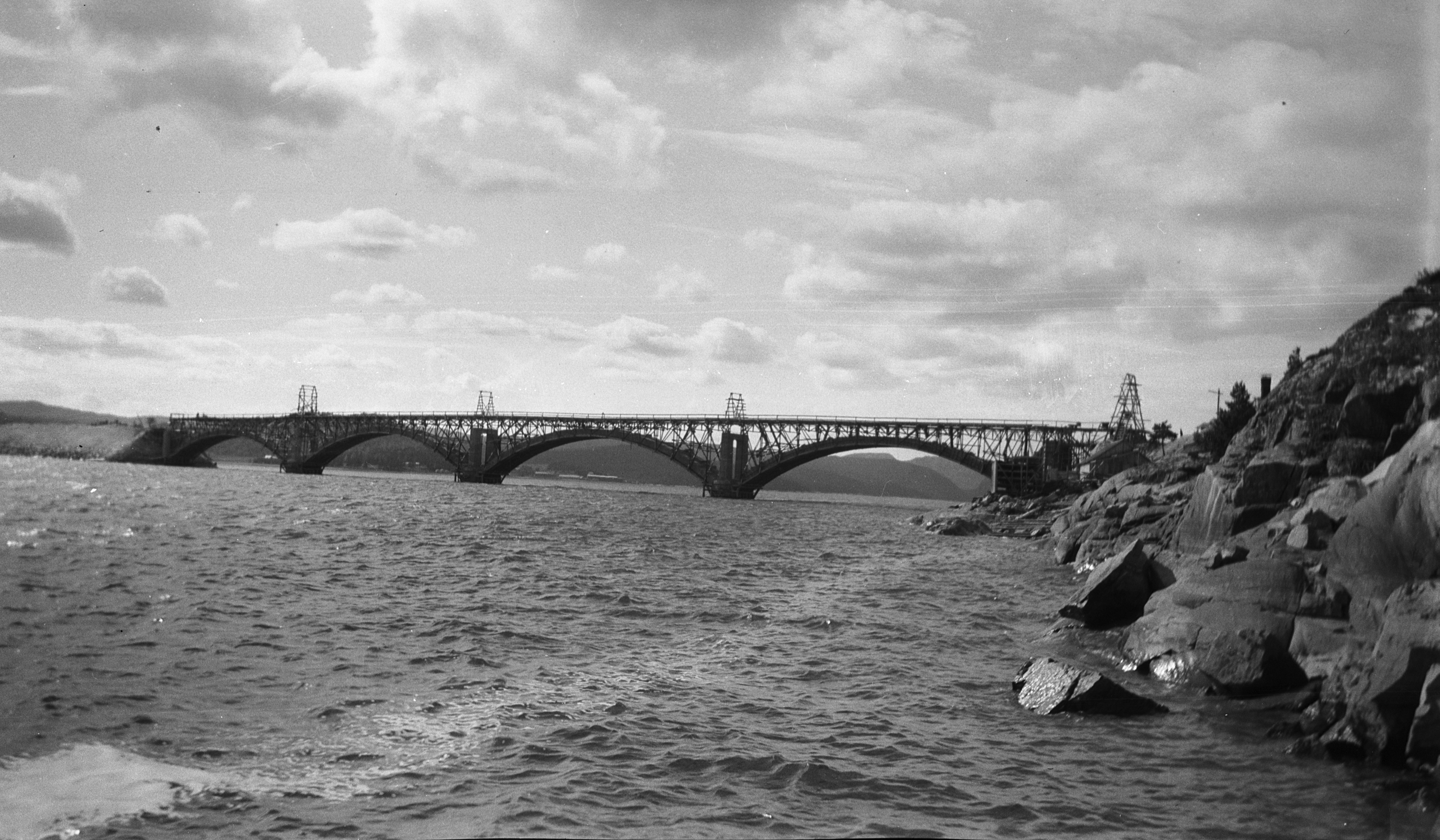 Identifier: SFFf-100585.274846 Photographer: Kristian Berge. Medium: Cellulose nitrate negative. Extent: 7 x 12 cm. Original caption (from Berge's negative album): Broen over Namsenelven. Work on the Namsbrua bridge finished in 1922, the same year as Kristian Berge took this photo.